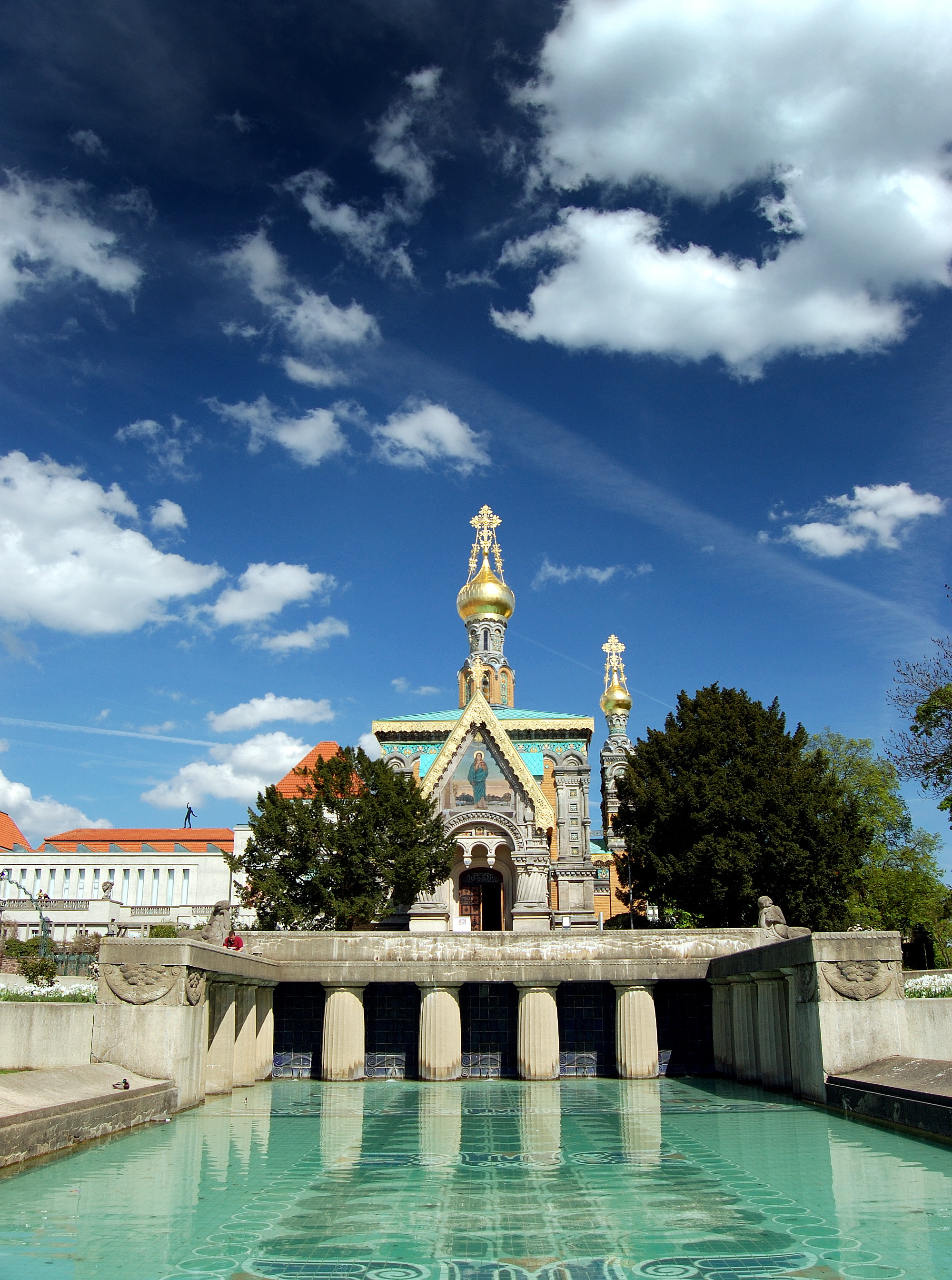 This photo shows the russian chapel at the Mathildenhöhe in Darmstadt, Germany.